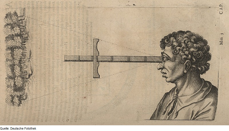 Original image description from the Deutsche Fotothek Geometrie & Mathematik & Vermessung & Jakobsstab